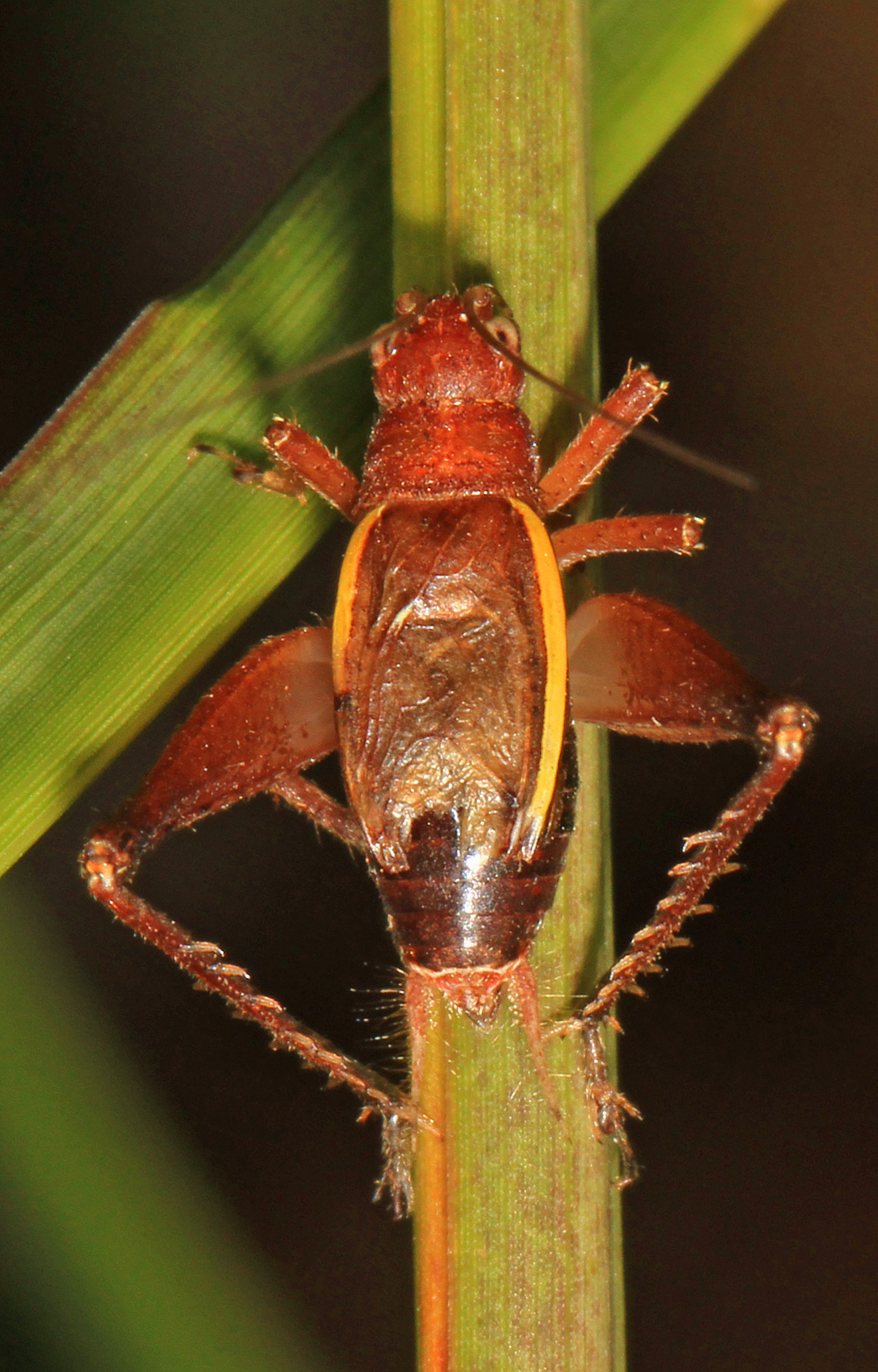 Restless Bush Cricket - Hapithus agitator, Occoquan Bay National Wildlife Refuge, Woodbridge, Virginia